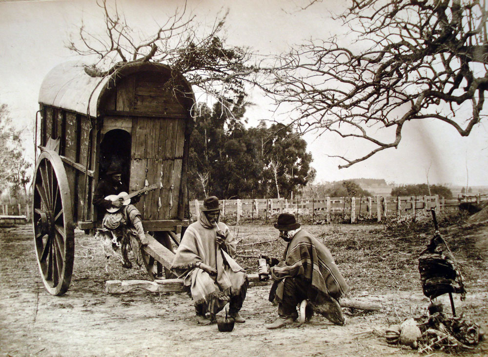 A group of Argentine gauchos, drinking mate and playing guitar, photographed in the Pampas.